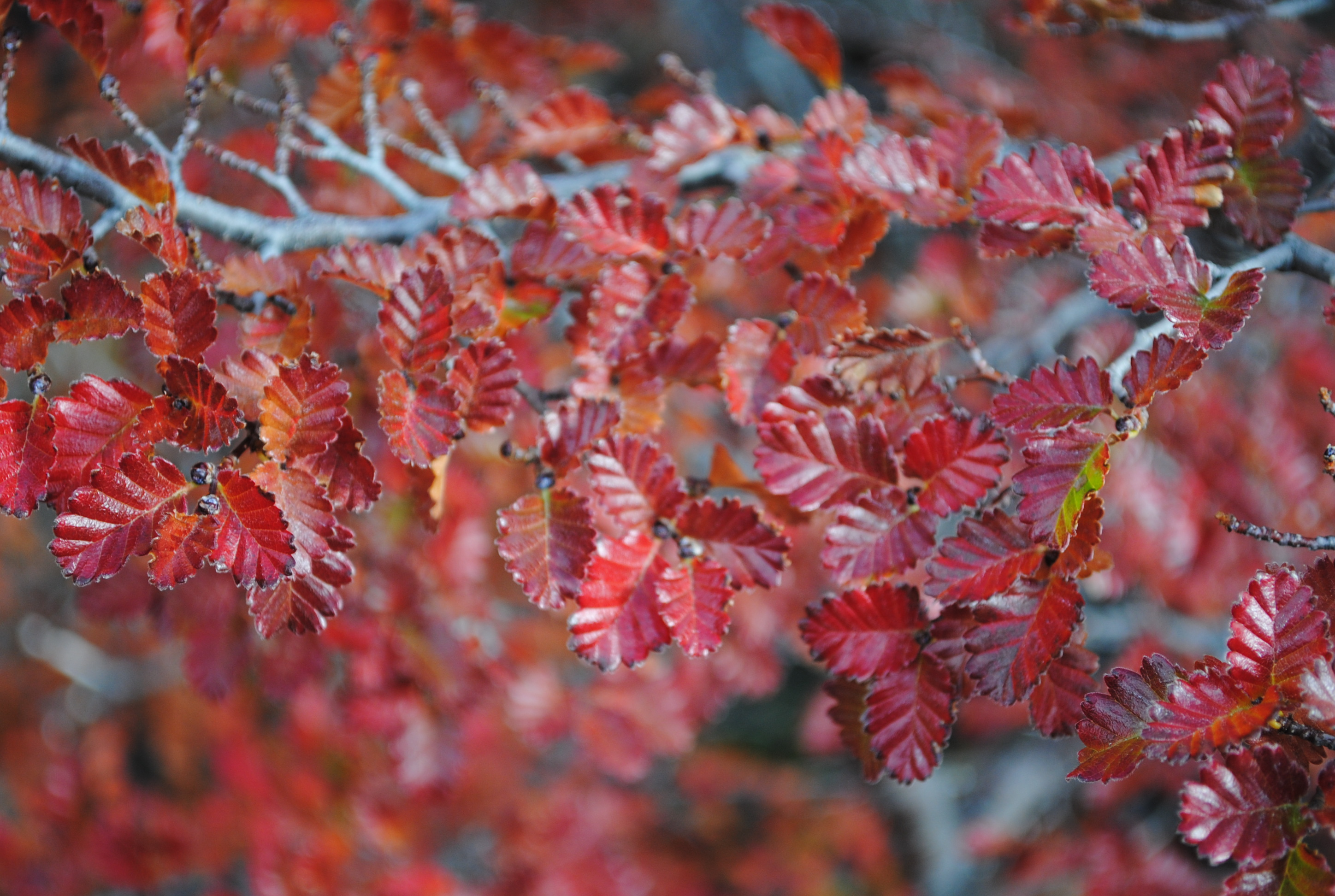 Fall leaves of Nothofagus pumilio near the timber line, Cerro Catedral, Bariloche, Argentina.